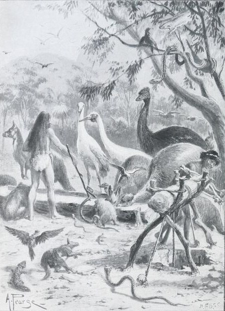 "I provided the distressed birds and animals with means of quenching their insupportable thirst" (b/w illustration from "The adventures of Louis de Rougement" in "The Wide World Magazine", 1899)